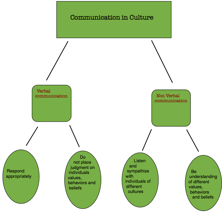 This diagram shows how to communication effectively with individuals of different cultures. It branches off into Verbal and Non Verbal Communication and the important steps to remember when communicating with individuals of different cultures.